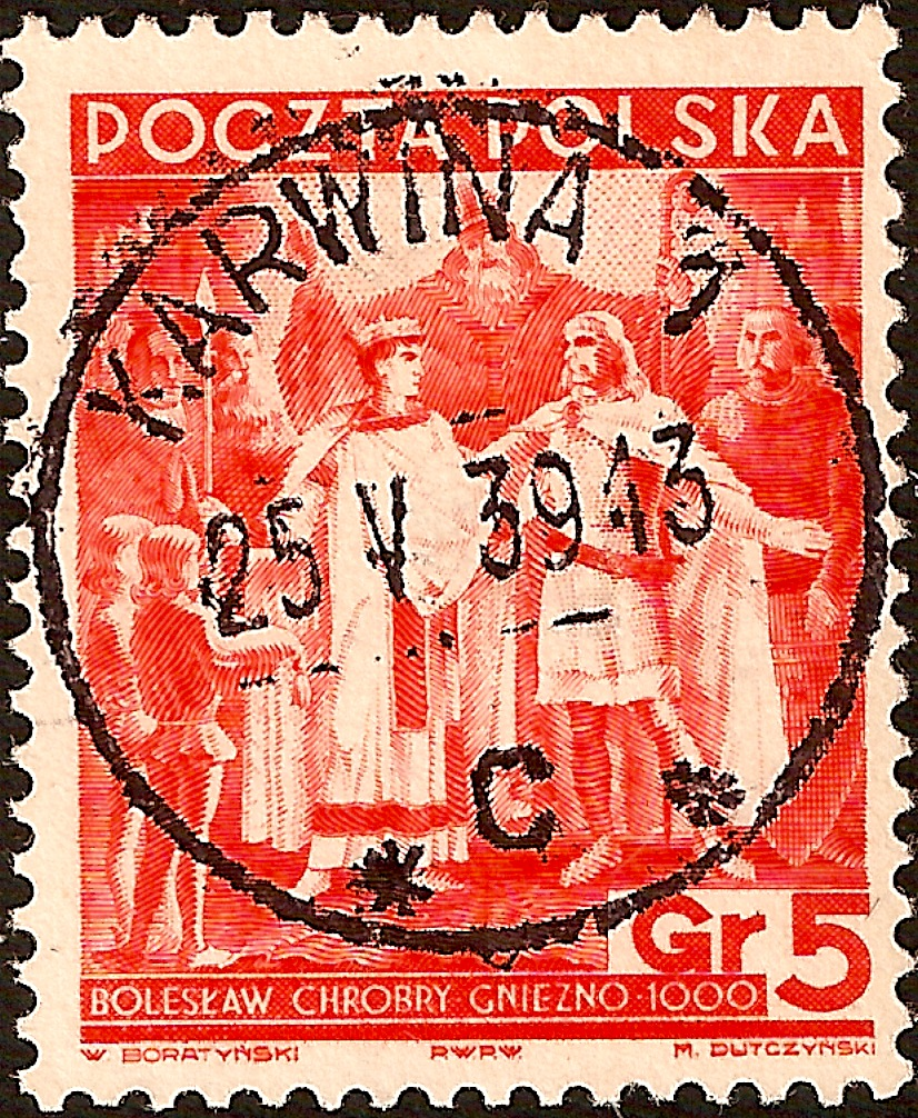 Scan of a 1938 Polish post stamp with Polish postmark from Karwina, 1939